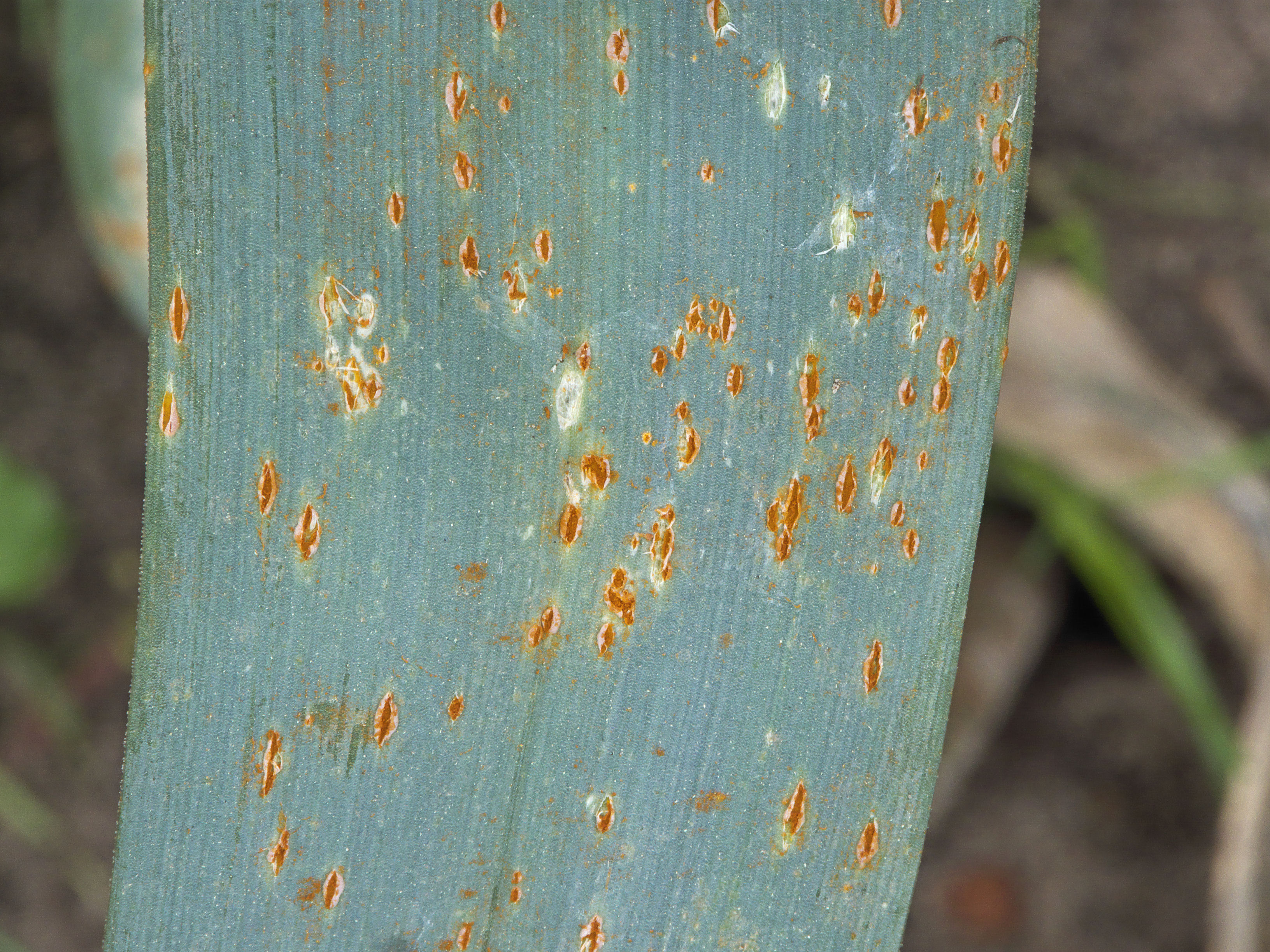 Puccinia allii on Allium porrum 'Farinto'